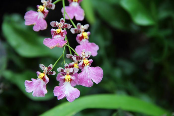 Family: Orchidaceae Genus: Oncidium Origin: the USA, Mexico, Guyana, Peru Diameter of Flower: 2~12 cm* Height: ~50 cm*